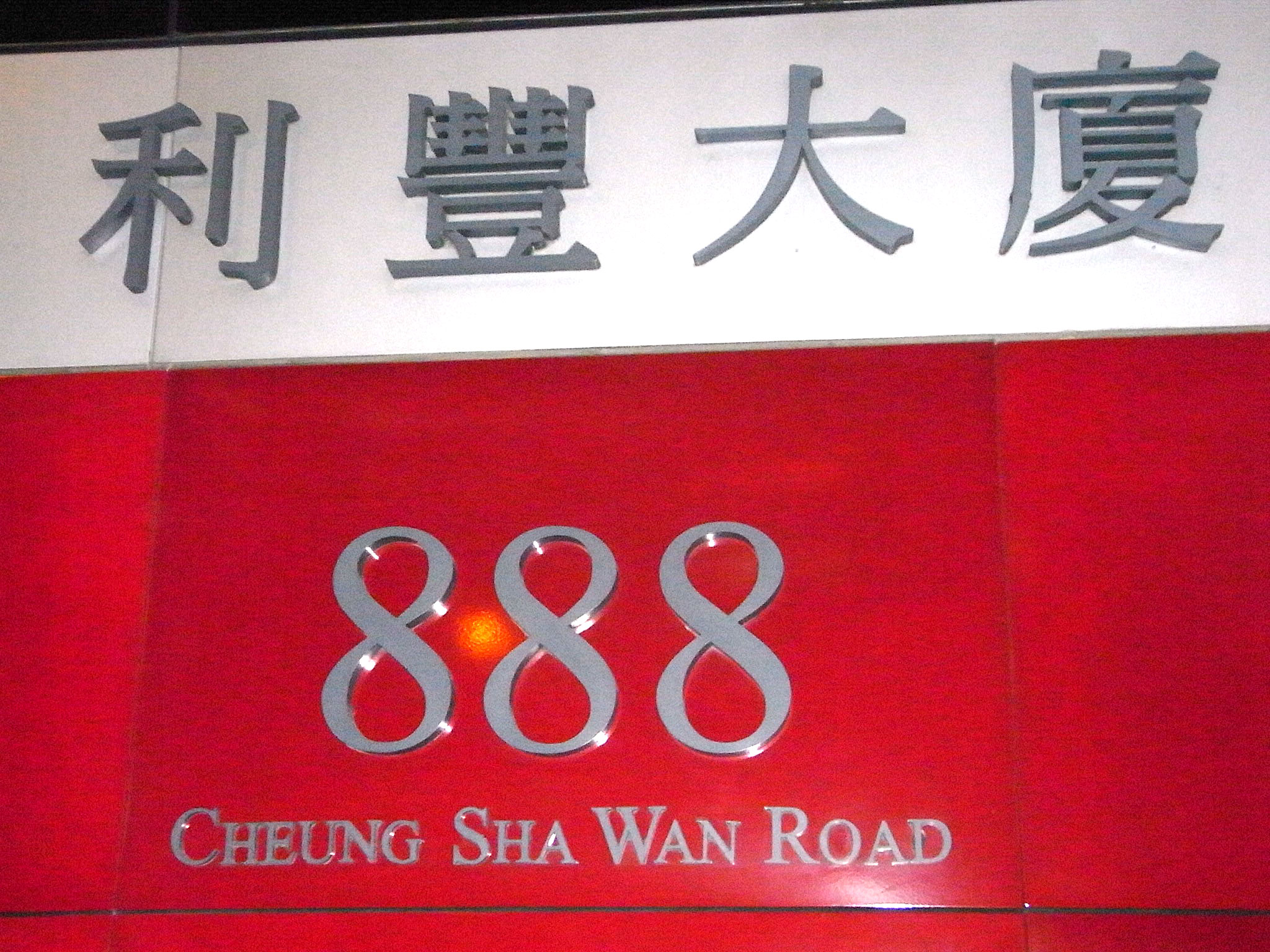 長沙灣長沙灣道利豐大廈